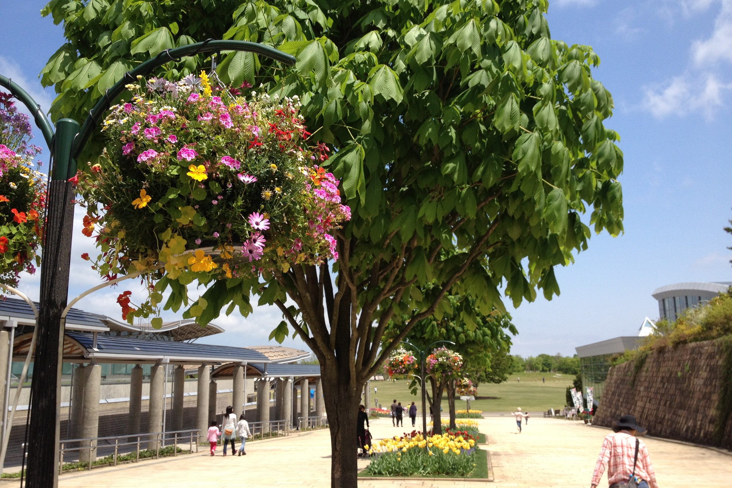 Flower promenade of Echigo Hillside National Government Park, Nagaoka, Niigata Prefecture, Japan